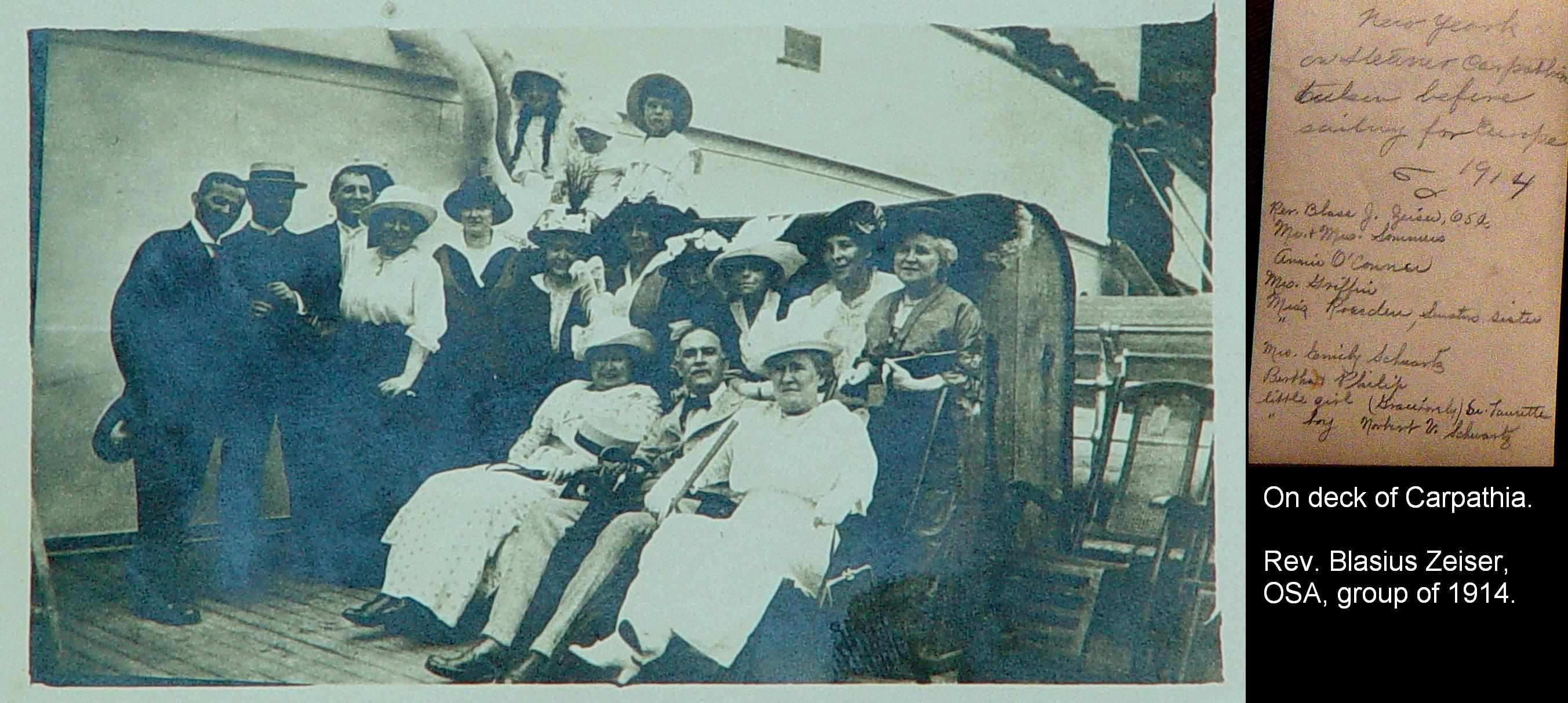 Rare on-deck image of passengers on RMS Carpathia during a 1914 overseas tour led by Father Blasius Zeiser, OSA. Carpathia rescued the Titanic disaster survivors in 1912. The Titanic-rescue-voyage's captain's last year of service was 1914. Carpathia was sunk in 1918 during World War One. The steamer passengers pictured include adults, children, and an infant who sit in deck chairs or stand. One empty deck chair is visible. In the distance above the group is a densely-packed crowd on a higher-up deck or perhaps touring the wing bridge.